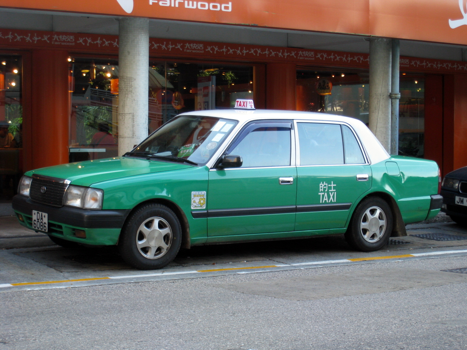 HK Toyota Comfort Green Taxi 香港新界的士